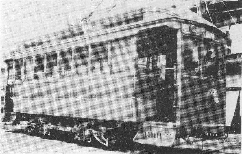 Keio Corporation #12 (taken in 1913)